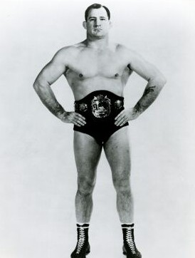 A photo of New Zealand wrestler Pat O'Connor